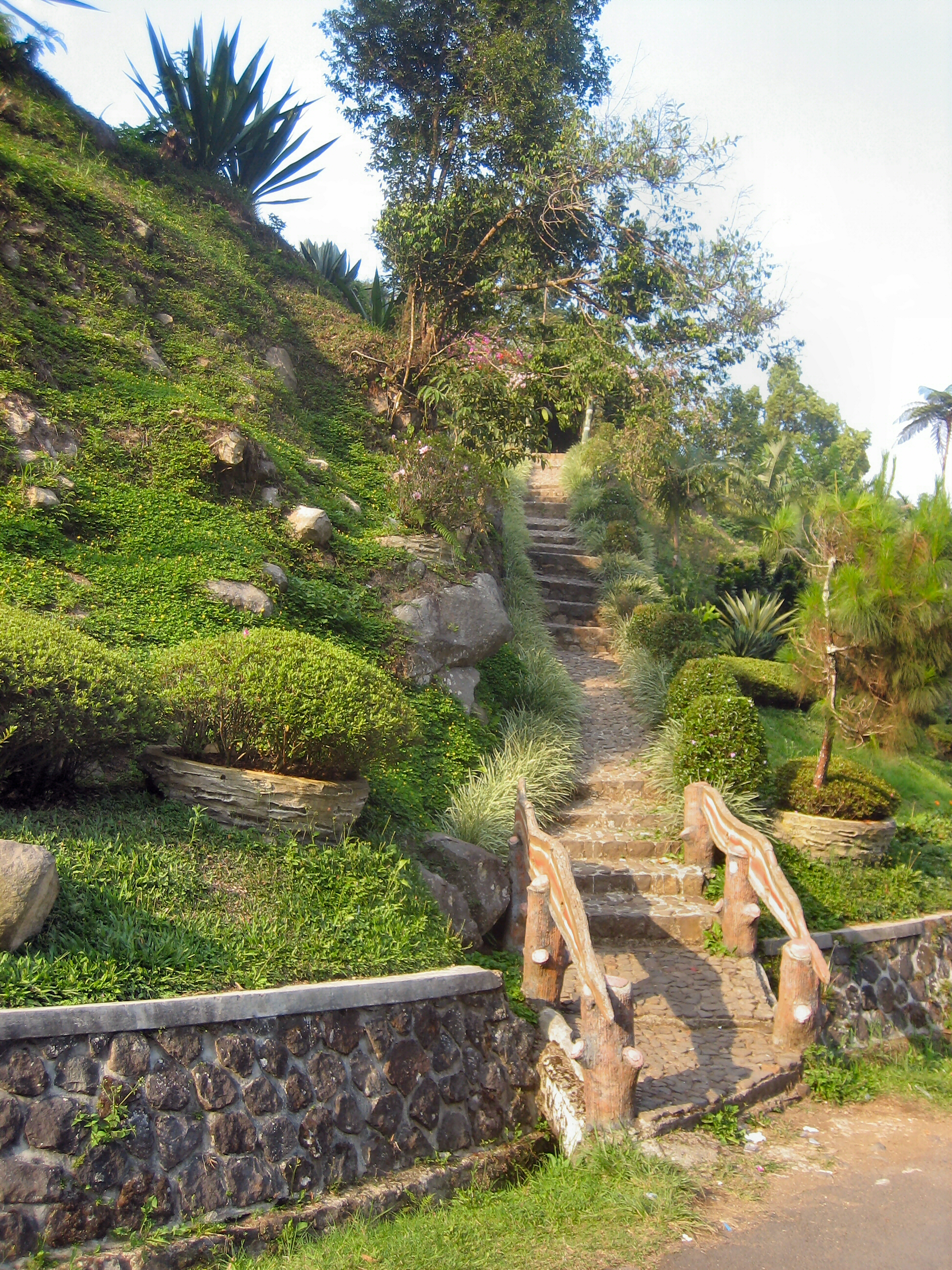 Cibodas Botanical Garden Java Indonesia Picture taken nov-2006 by Hullie